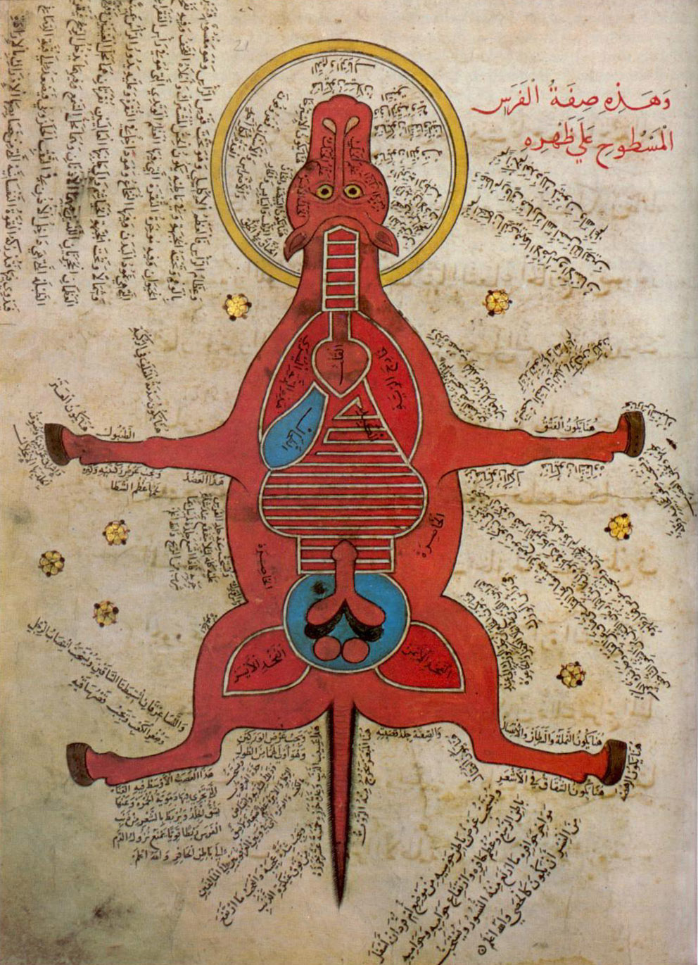 Anatomy of a horse from a 9th century AH (15th century AD) Egyptian document at the University Library, Istanbul.